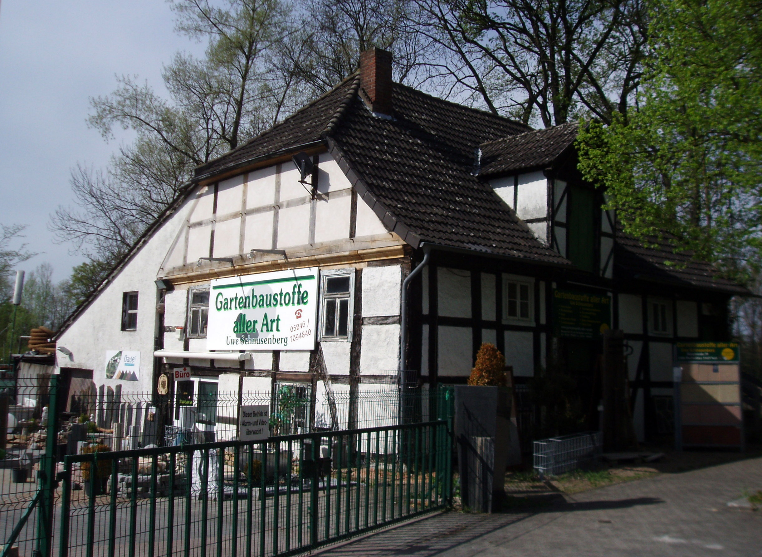 Landmarked water mill in Verl, near Bielefeld, in Germany This is a photograph of an architectural monument.